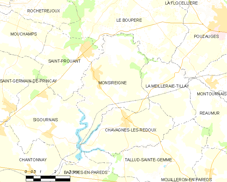 Map of French municipality Monsireigne